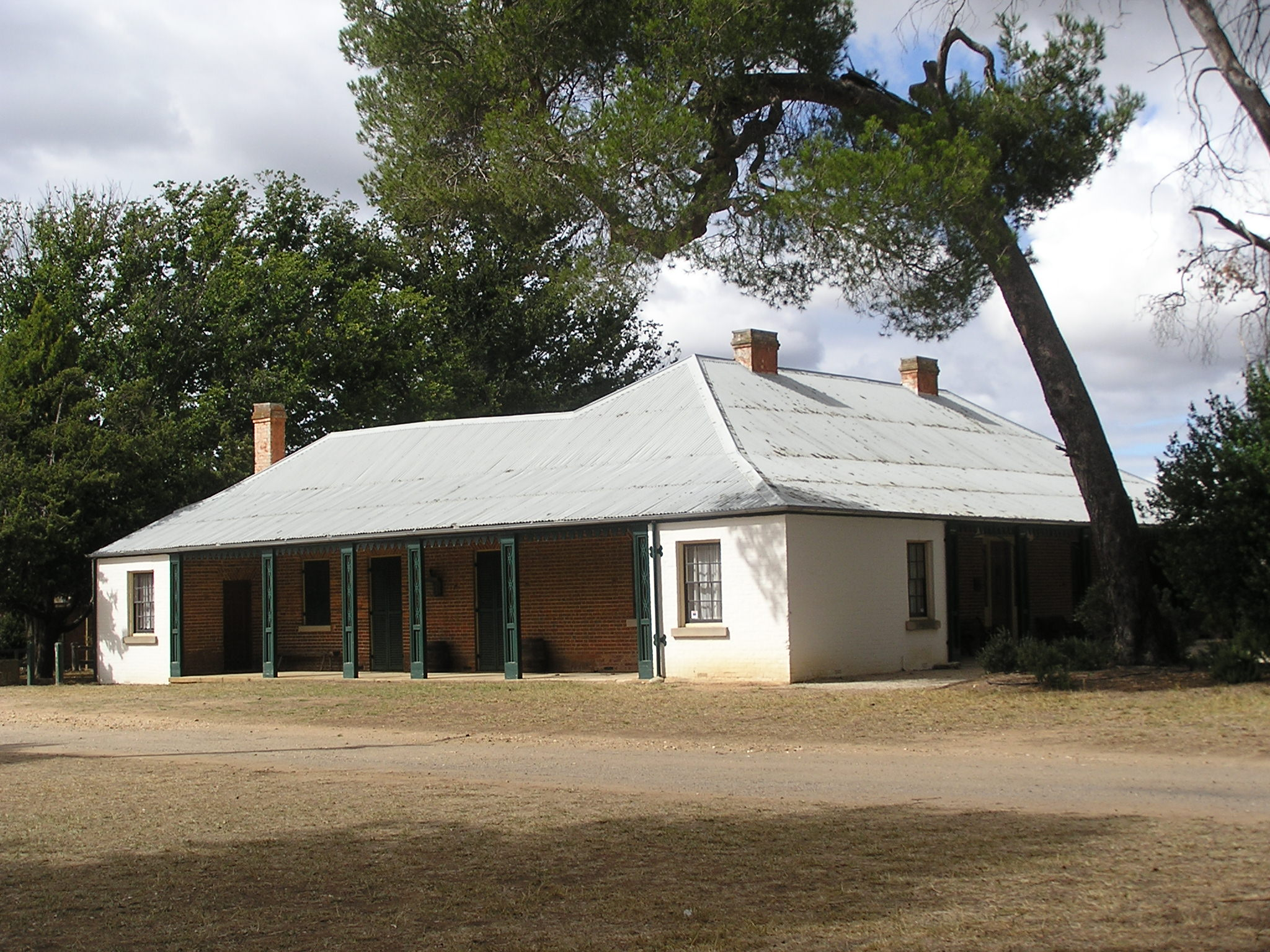 Goulburn, New South Wales, Australia - Riverdale, a pioneer Georgian style residence dating from around 1840.